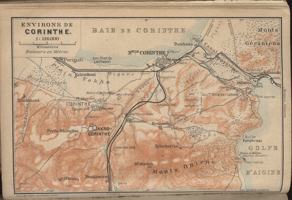 Old map of Corinth Canal area from Baedeker 1908.